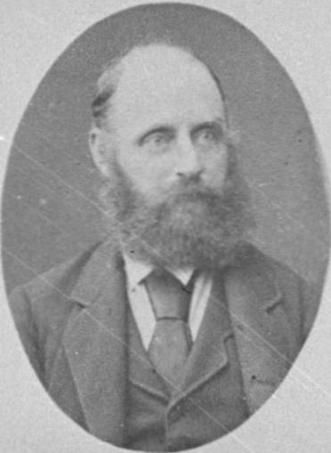 Portrait taken from montage depicting members of the 1882 House of Representatives.